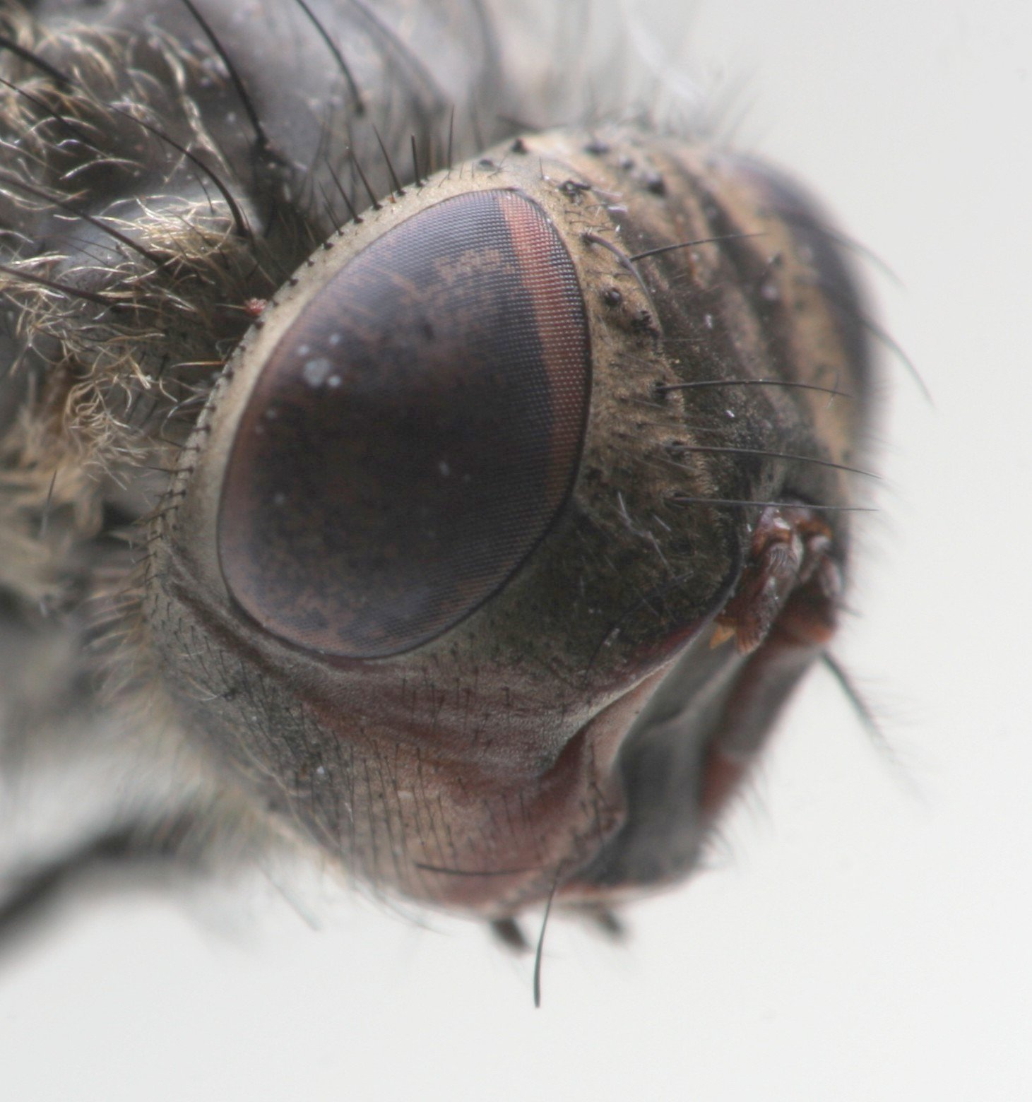 Dead fly's head.